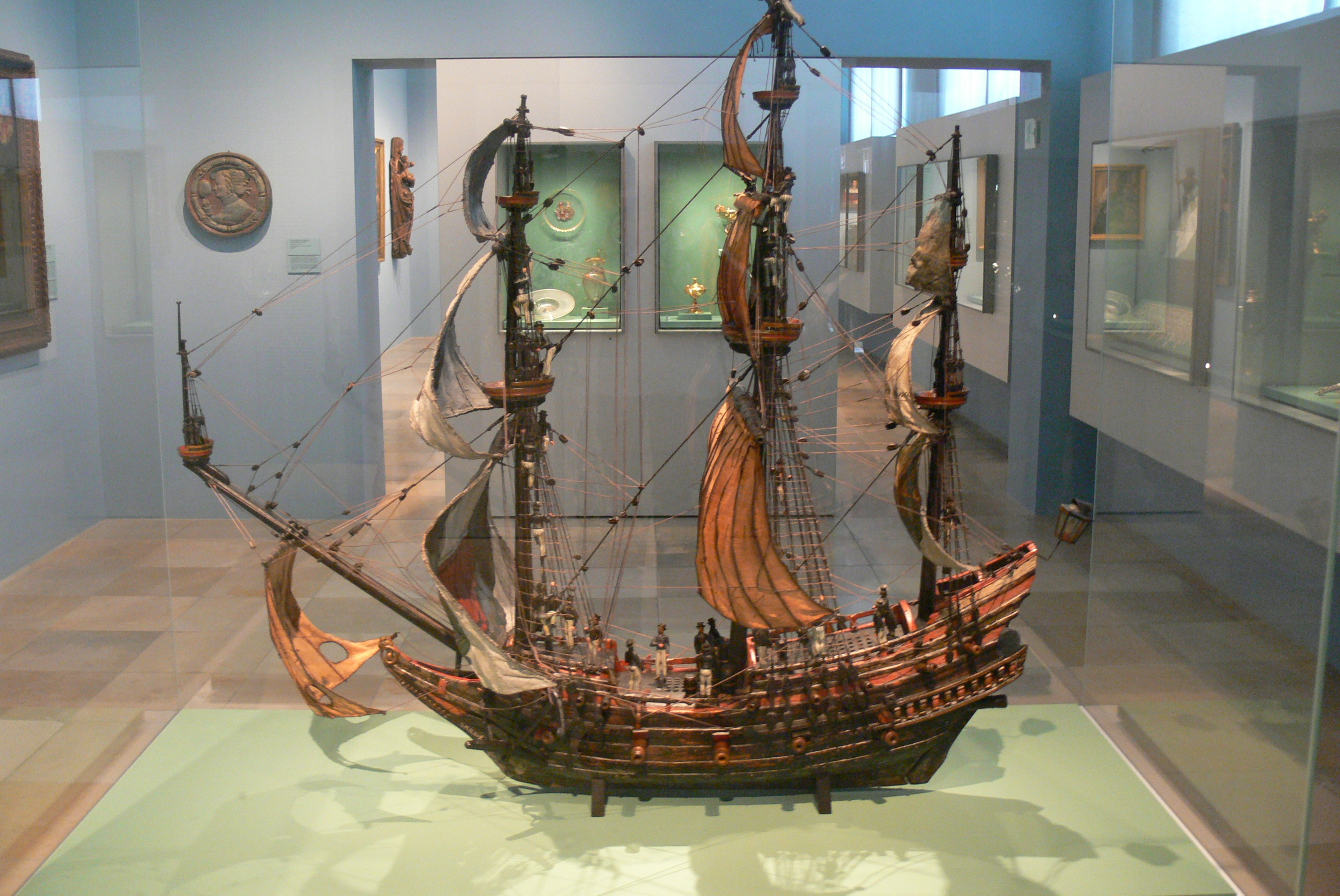 German National Museum (Nuremberg/Germany). So-called "Peller ship" (1603), made by Hermann Severin in Lubeck.